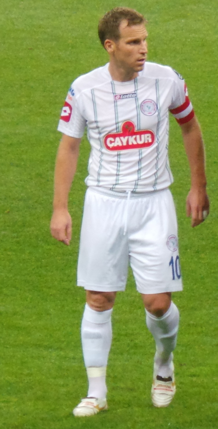 Florin Cernat